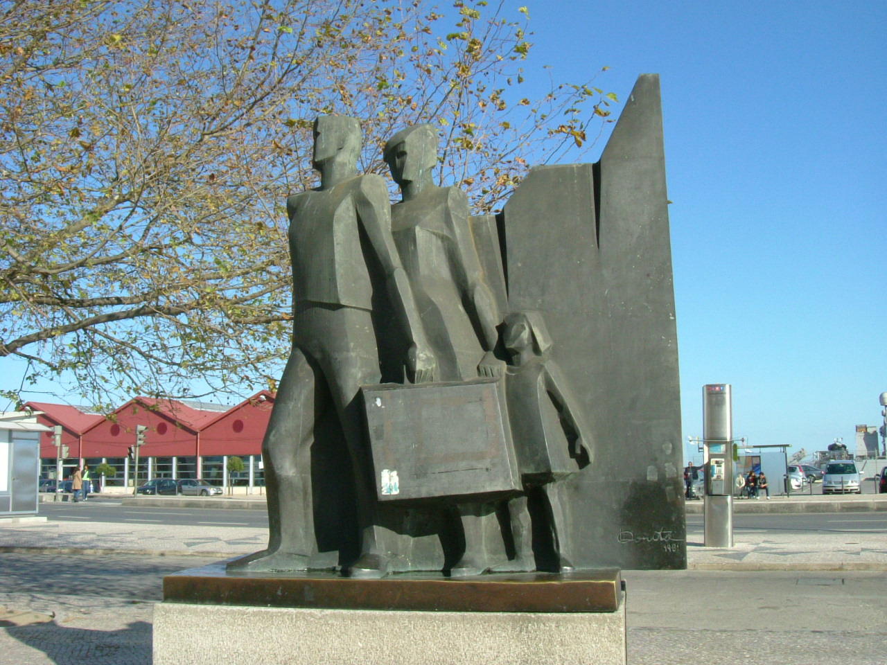 monument for the Portuguese Emigrants at the Lisbon train station Santa Apolónia, Portugal